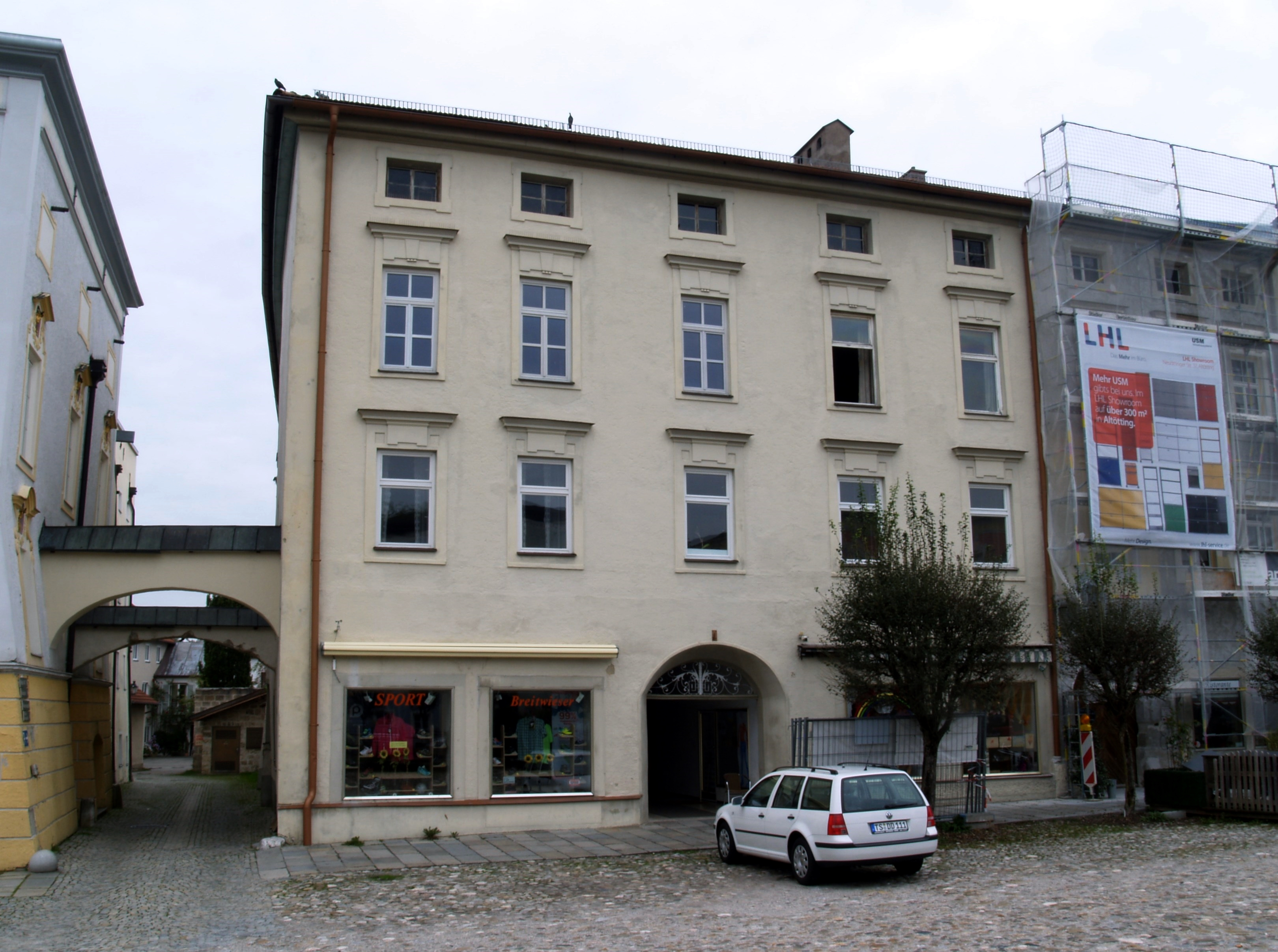 This is a photograph of an architectural monument.